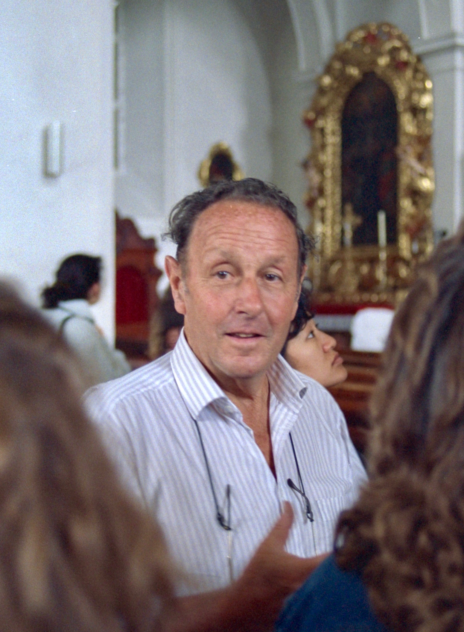 Graphic designer Armin Hofmann led a summer program in graphic design for many years. This picture shows him explaining church design elements to students in the program in 1989 during a trip that went over the Gotthard pass. This church is within the Disentis Monastery in Disentis, Switzerland, at the foot of the Lukmanier Pass.